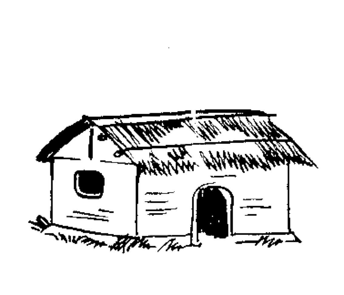 One of the simple symbols used in Indian Elections